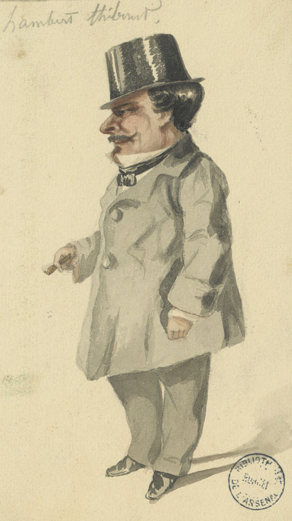 Lambert-Thiboust (1826-1867)